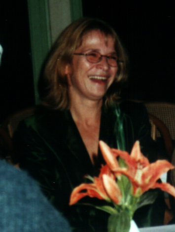 German actress and dubbing actress Arianne Borbach